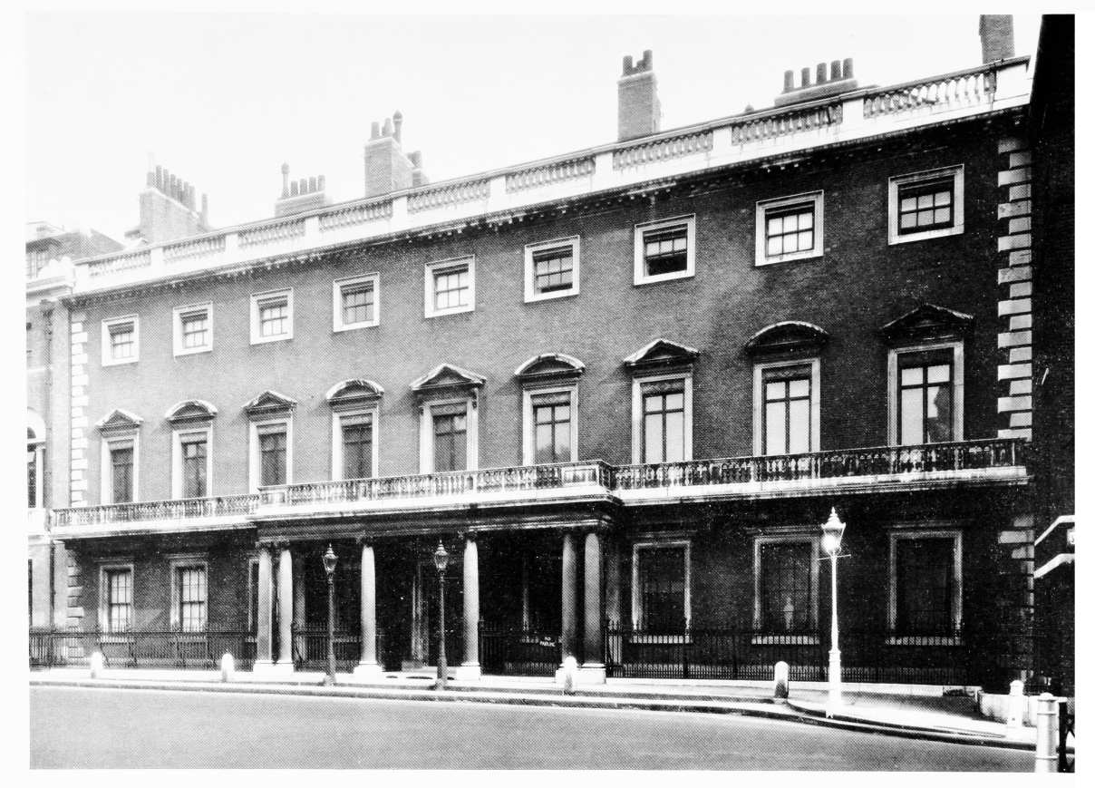 Norfolk House, 31 St. James's Square, built 1748–52, photographed 1932, demolished 1938.